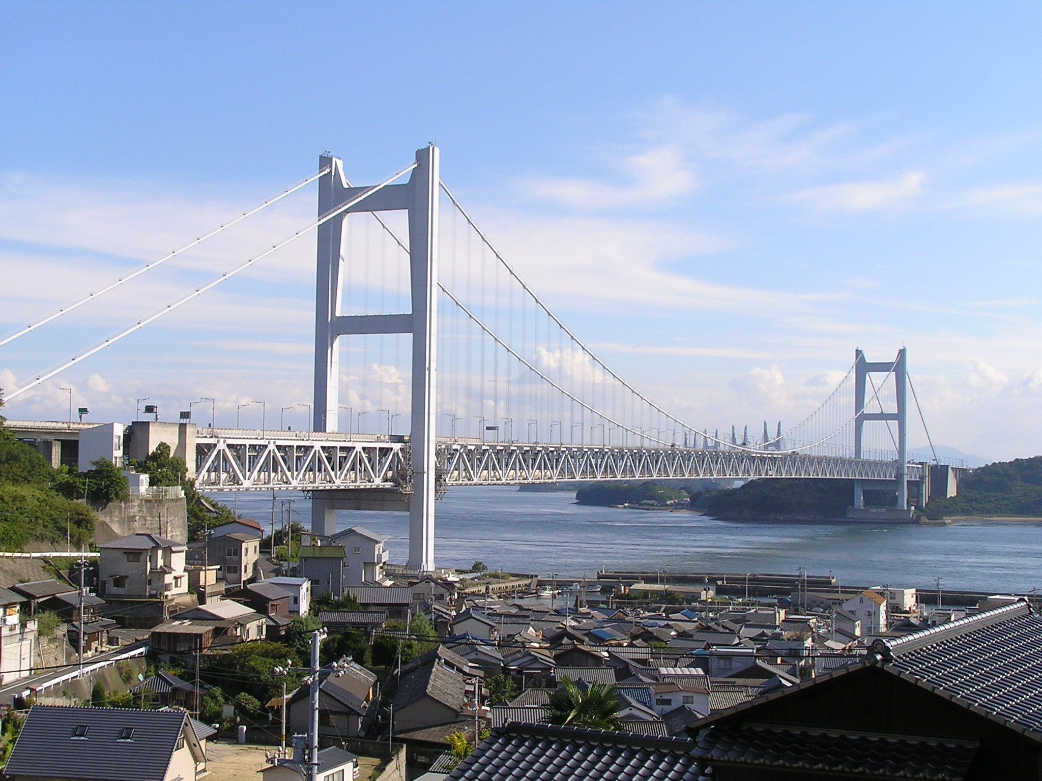 Shimotsui-Seto Bridge who saw from Okayama Prefecture